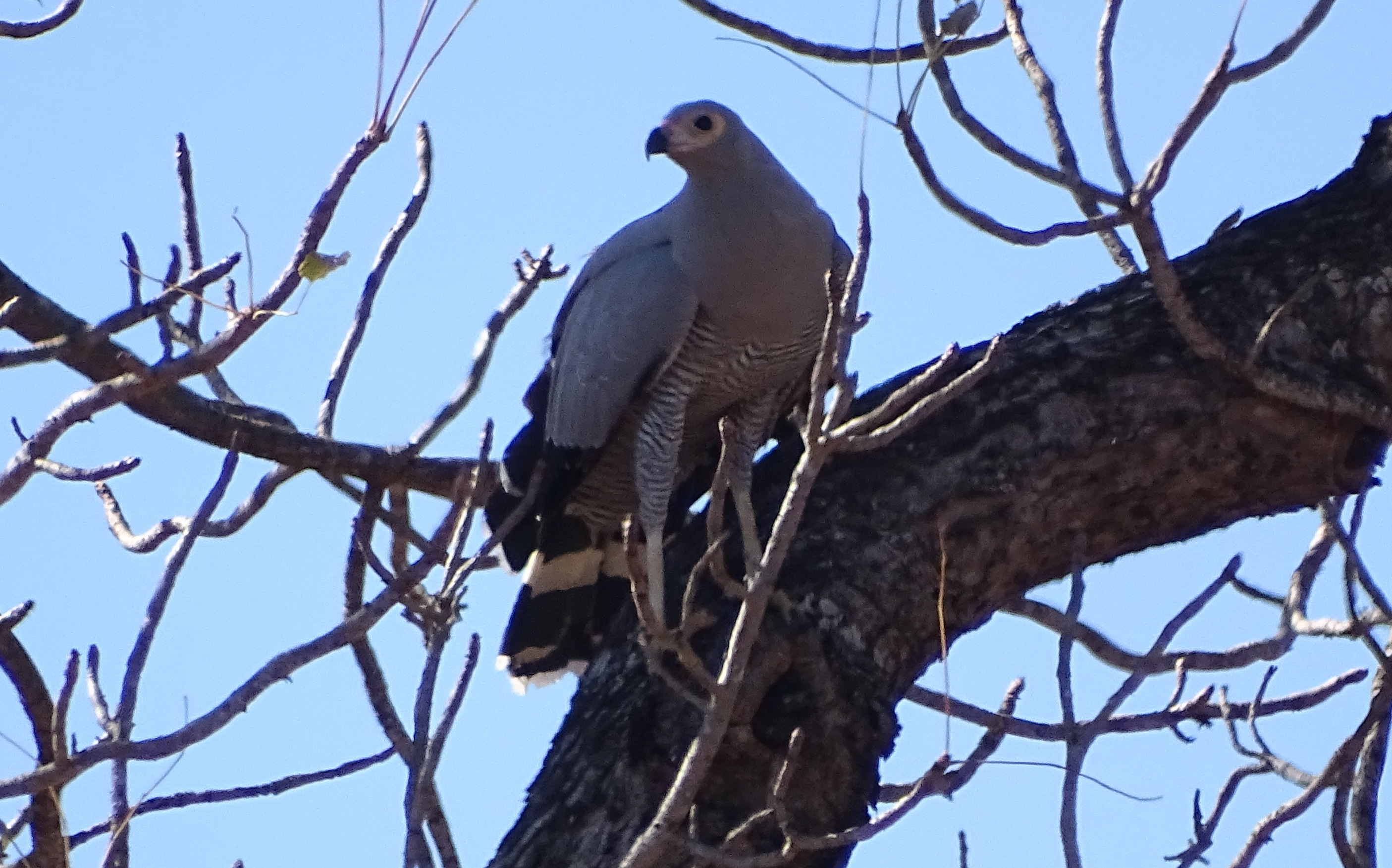 Madagascan harrier-hawk near Mahaboboka, SW Madagascar